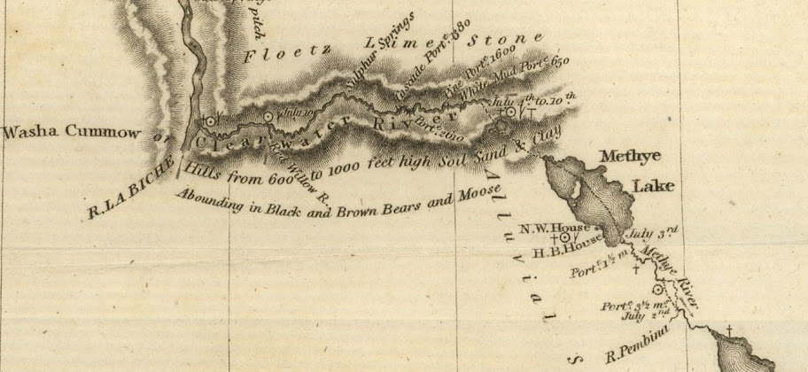 Part of John Franklin's expedition map of 1819-1820 showing Methye Portage and the Clearwater River.